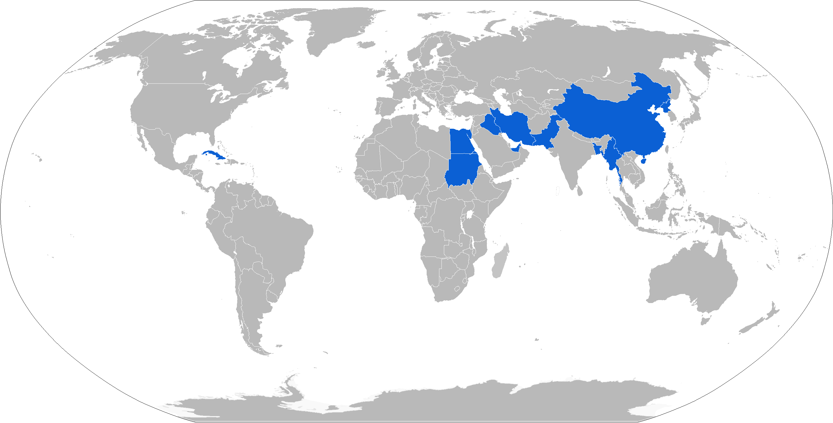 Map with Silkworm operators in blue